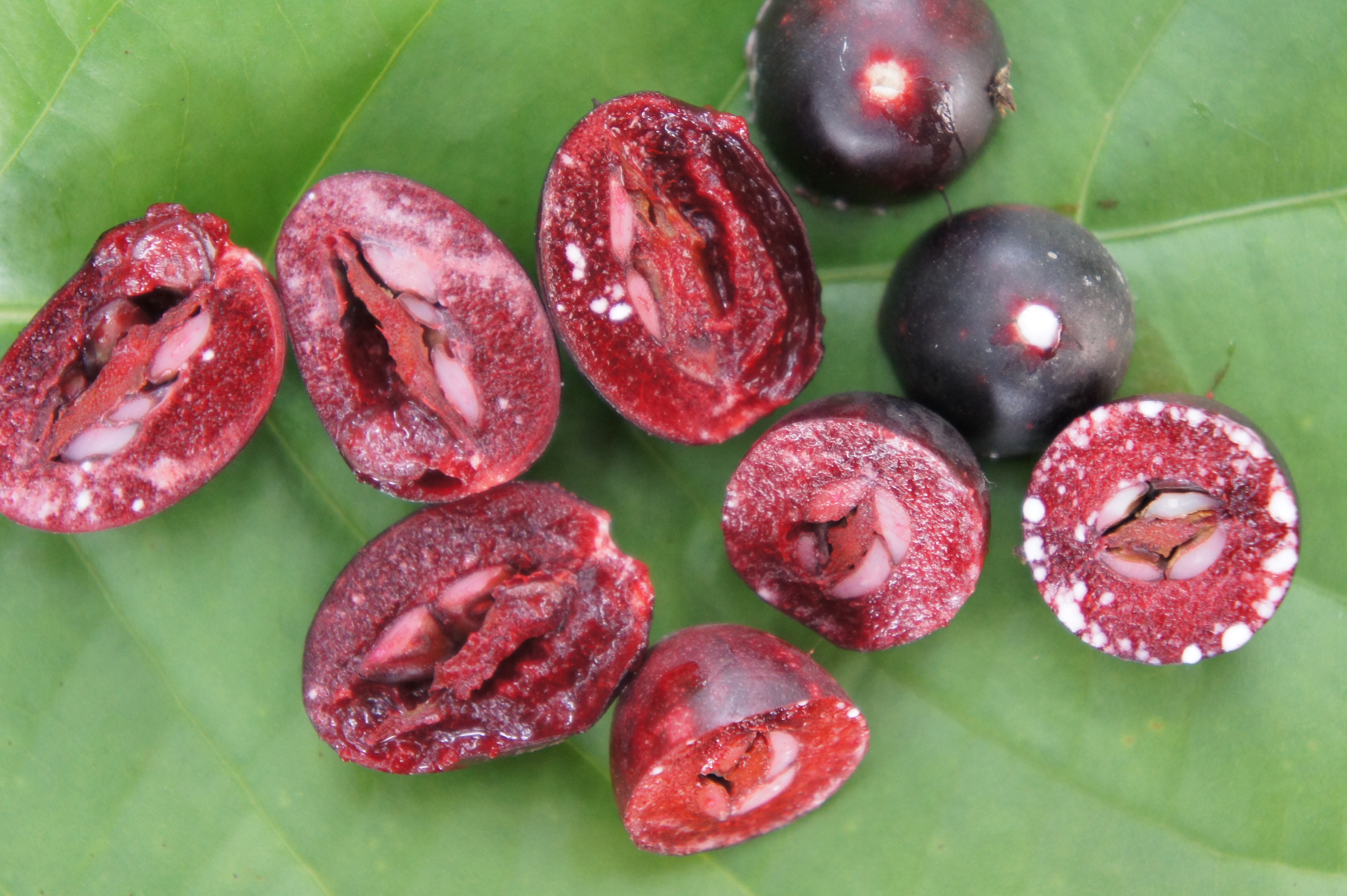 Mature fruits of Carissa carandas, ready for consumption. Serdang, Selangor, Malaysia. 28 September 2012